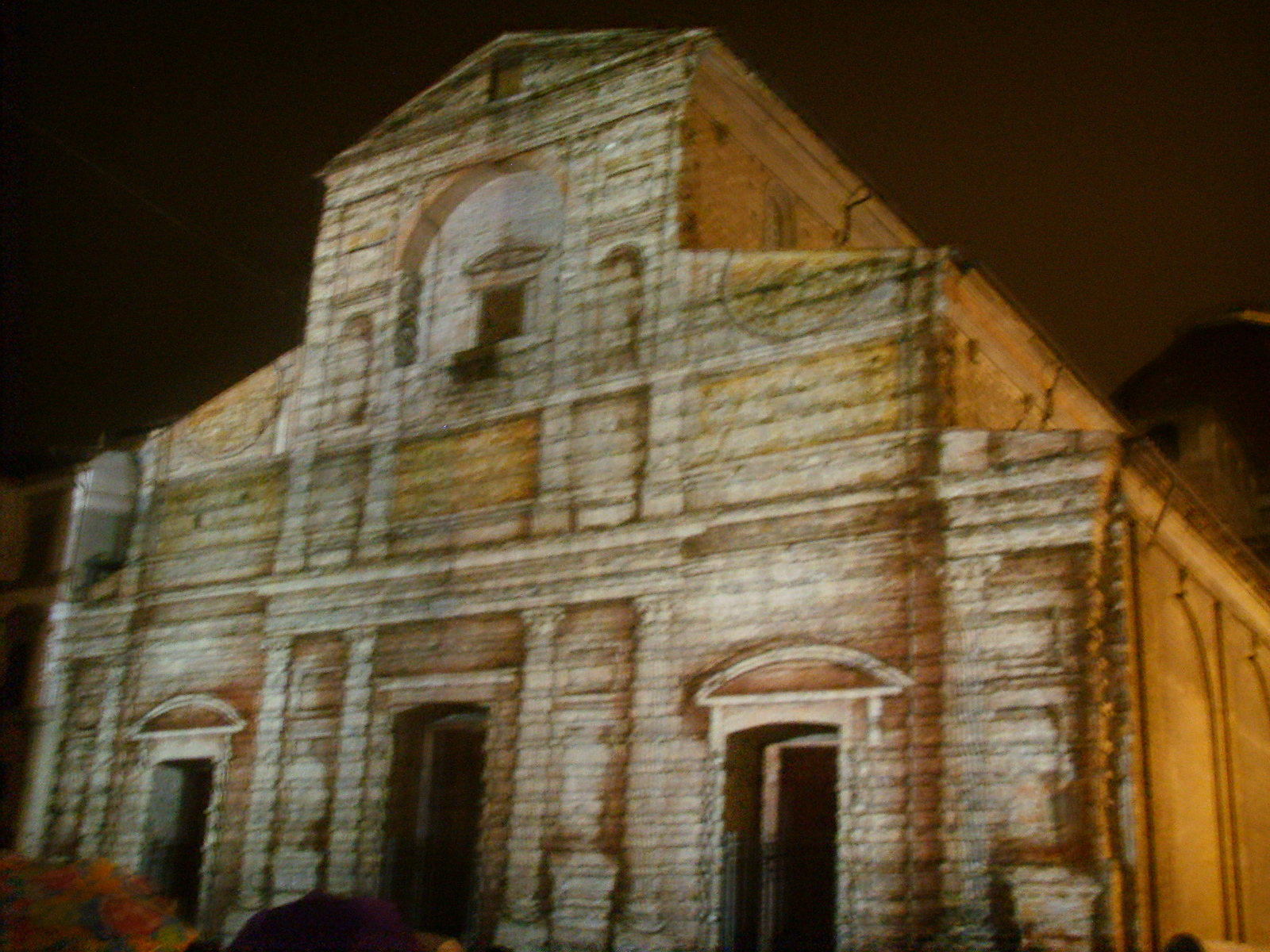 Colonna_di_San_Lorenzo reconstruction of the never-done facade of San Lorenzo church of Florence. (light projecton on the real site by night) Showed to the public for a special celebration for Anna Maria Luisa de' Medici in Feb-March 2007